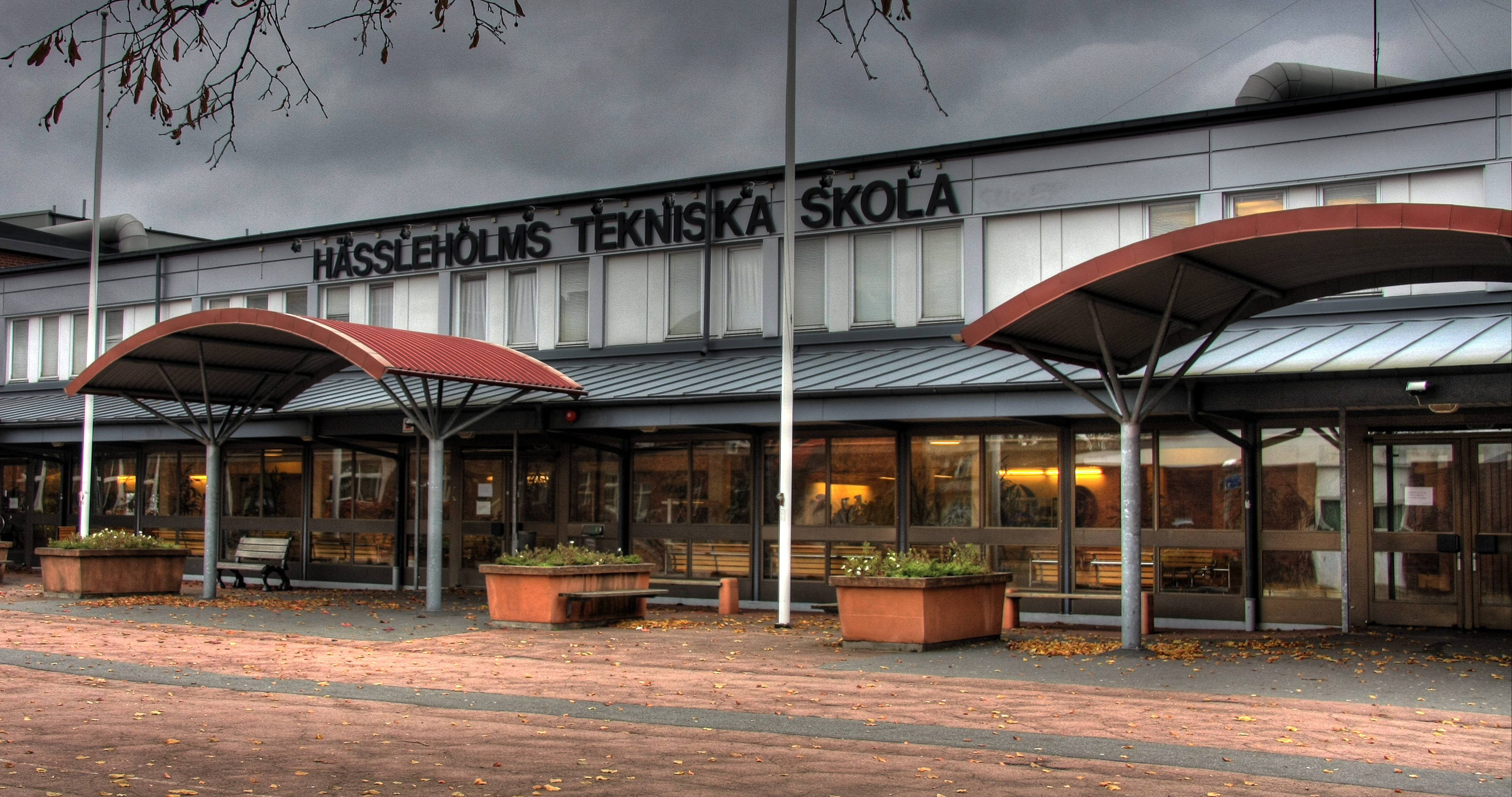 Hässleholms tekniska skola, a primarily technological "gymnasium" in Hässleholm, Sweden